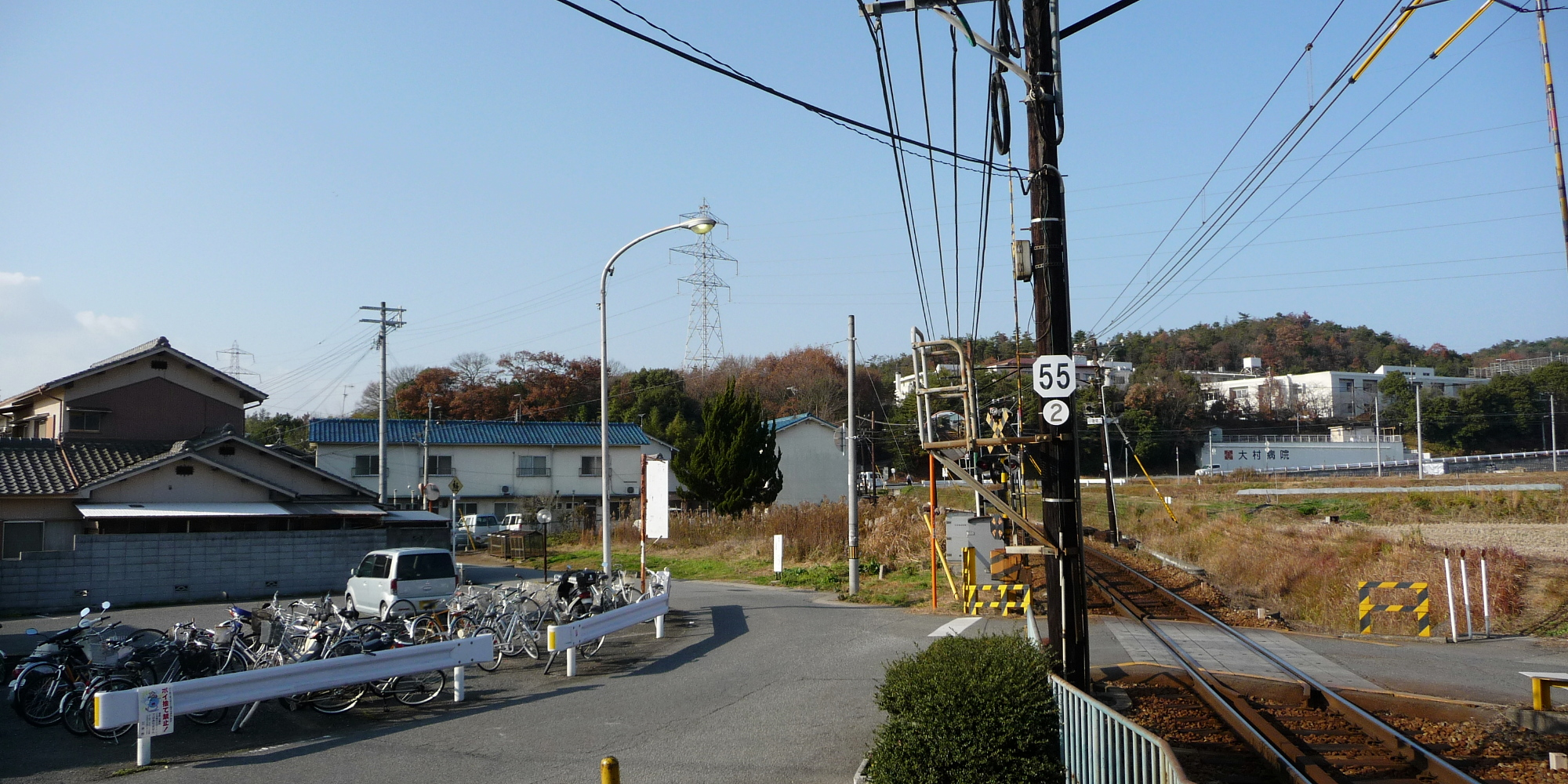 Kobe Electric Railway Omura Station